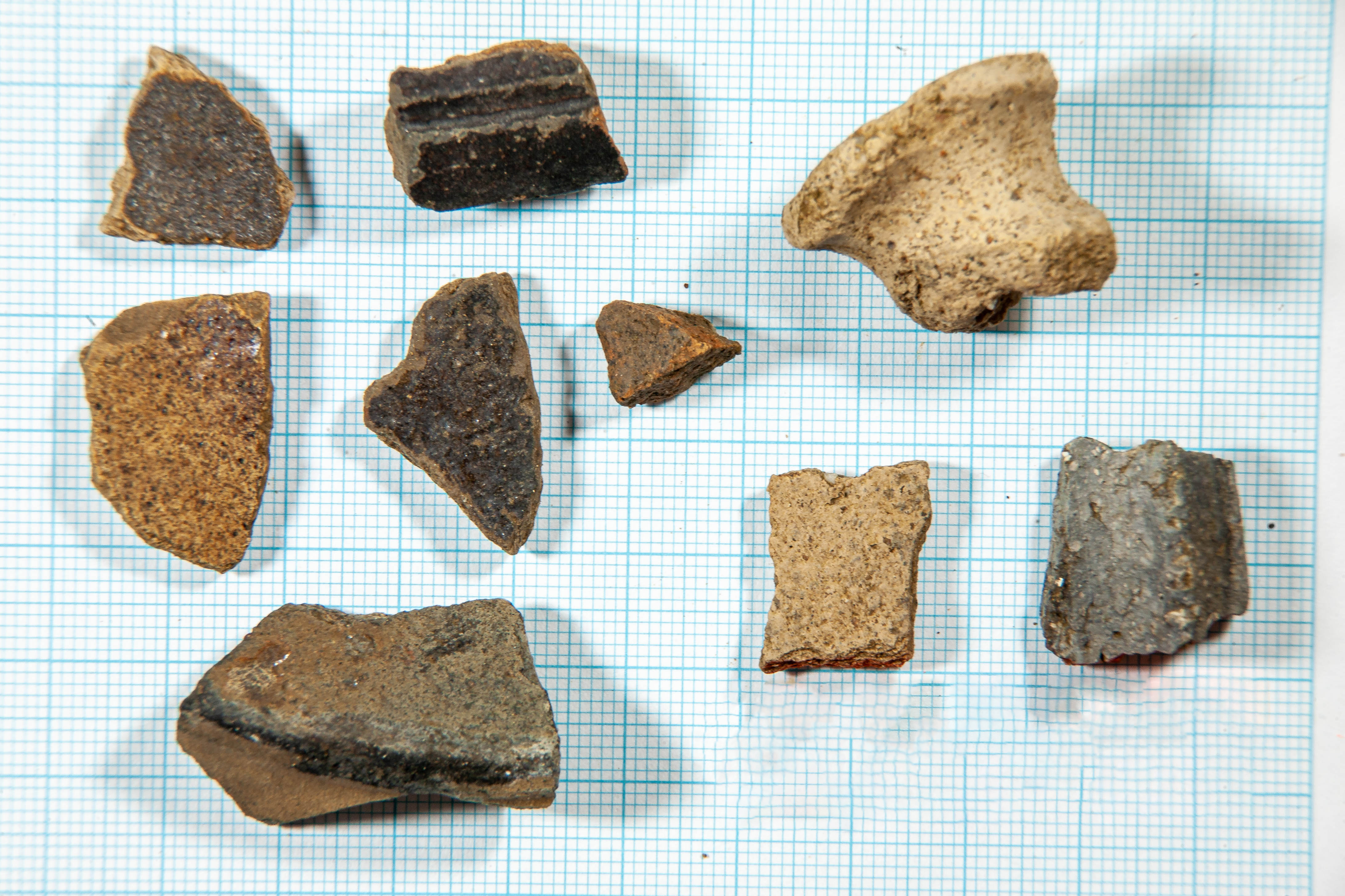 Shard finds from a field inspection in March 2020 - The photos show shards of mica silver as well as burnt turntable goods. Time position: High Middle Ages to late Middle Ages / early modern times. Inventory number blfd: E-2020-525-3-0-1